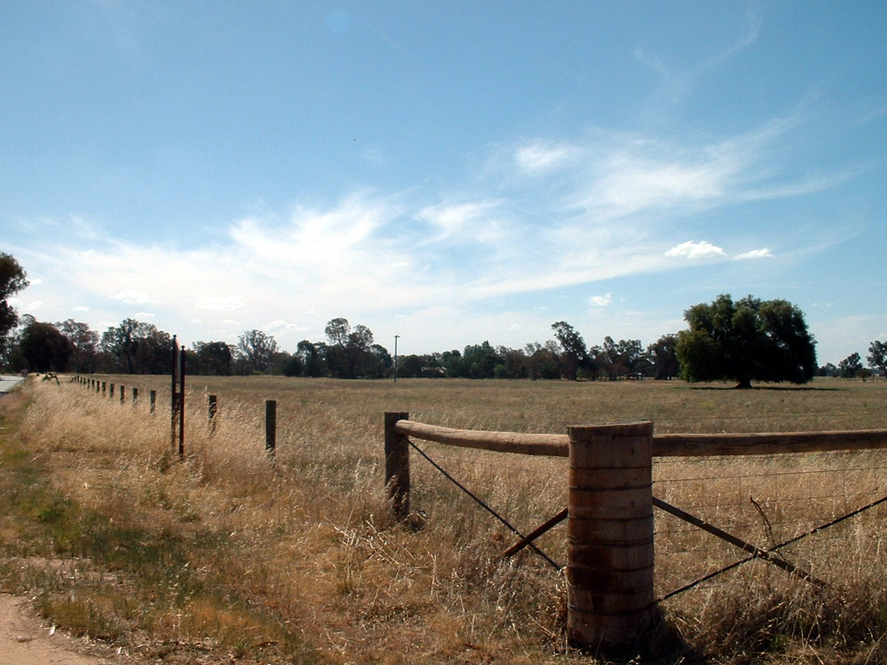 Site of the farm at Avenel where Ned Kelly lived in the 1860s.